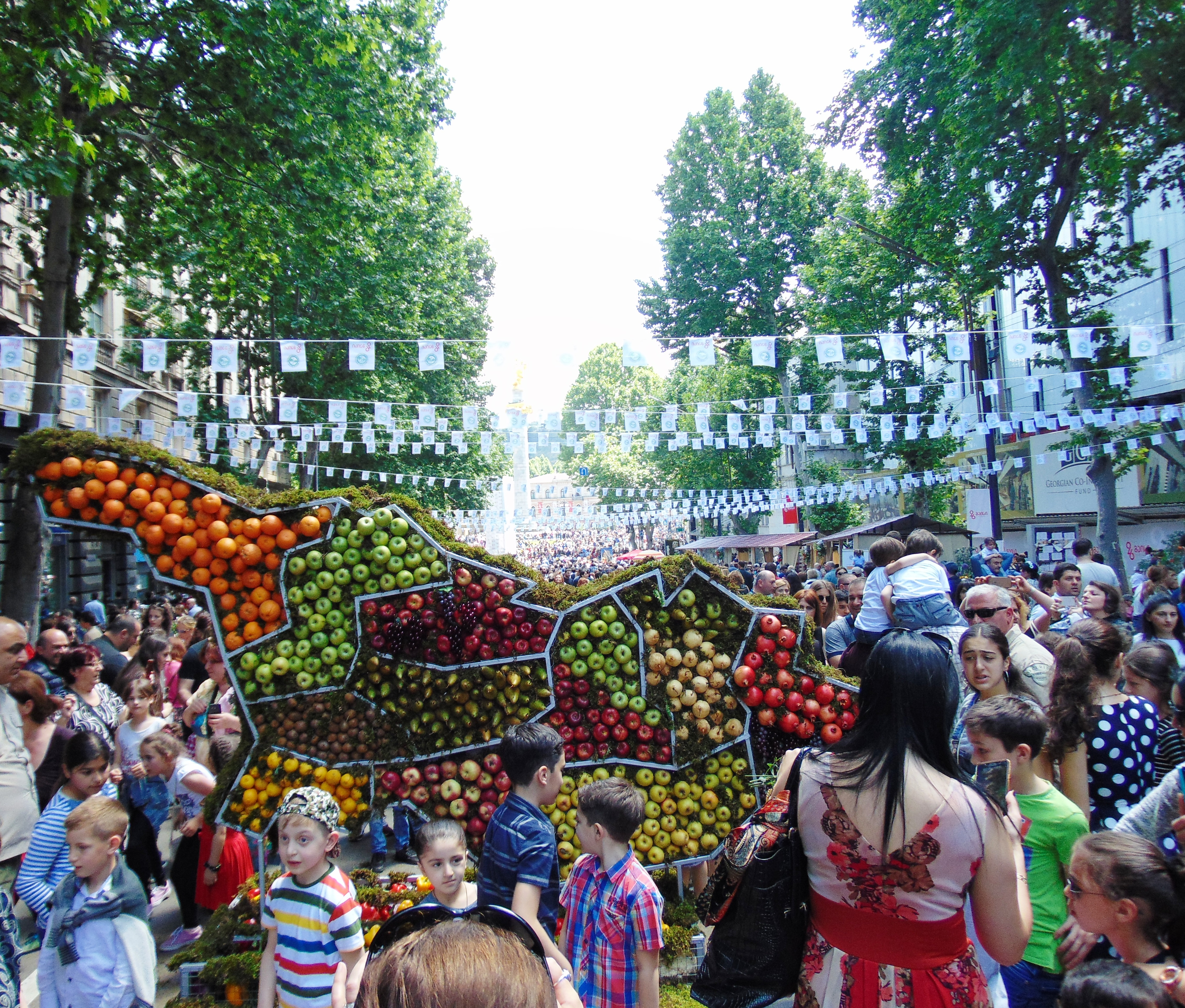 Rustaveli Ave., Tbilisi. Georgia's Independence Day celebrations 26.05.2017